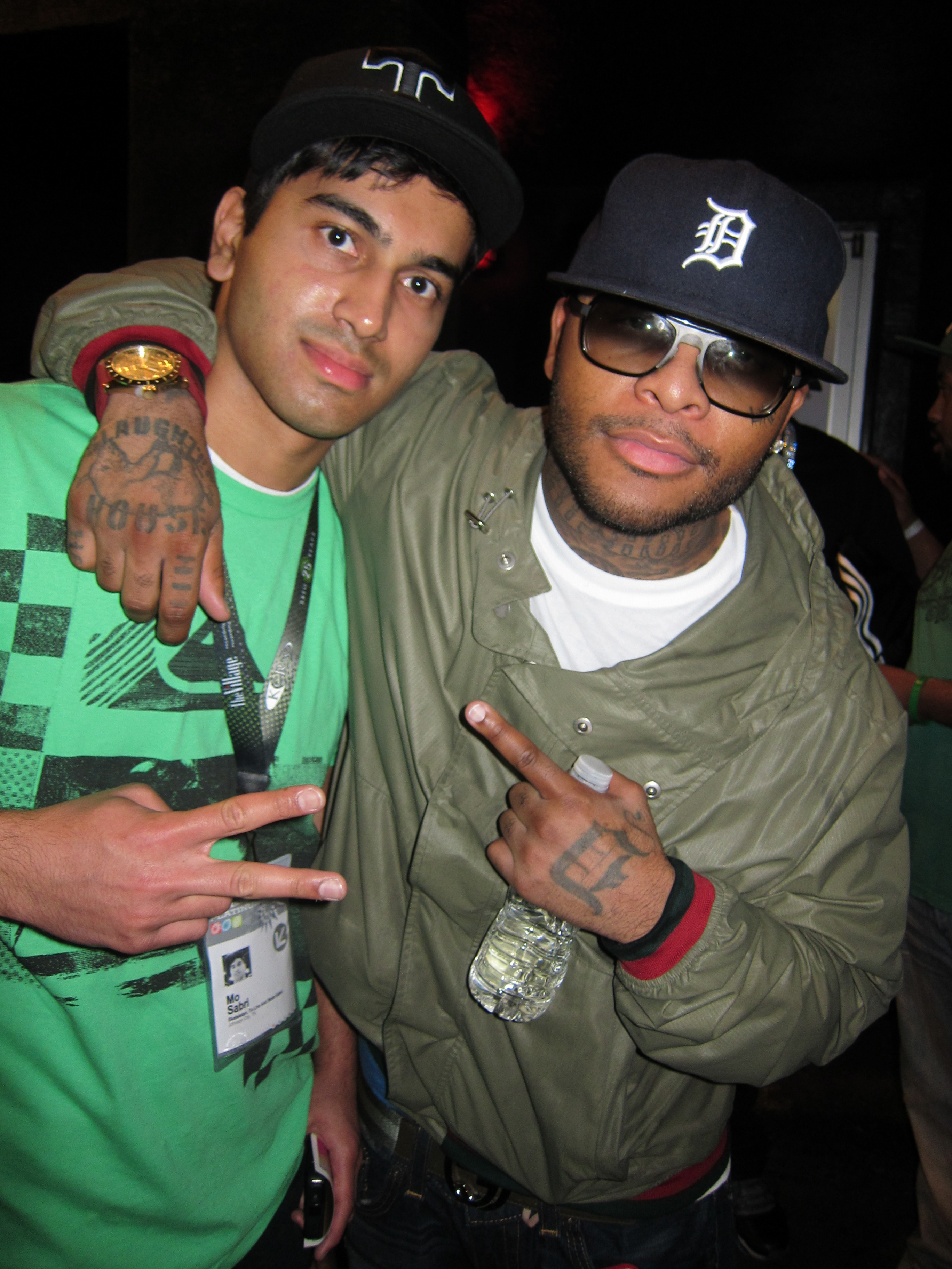 Mo and Royce da 5' 9""